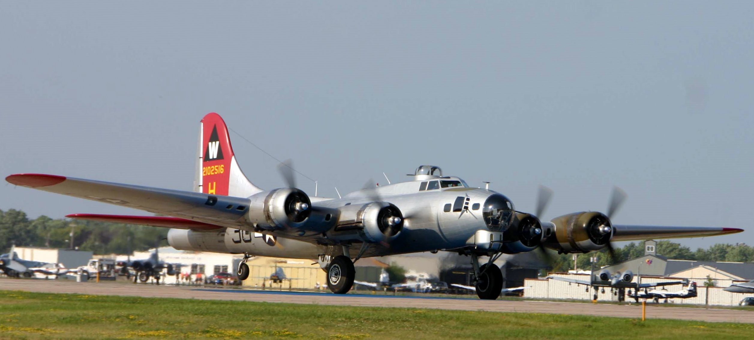 B-17G-VE "Aluminum Overcast", serial number 44-85740, at EAA's 2006 EAA AirVenture Oshkosh in Oshkosh, Wisconsin